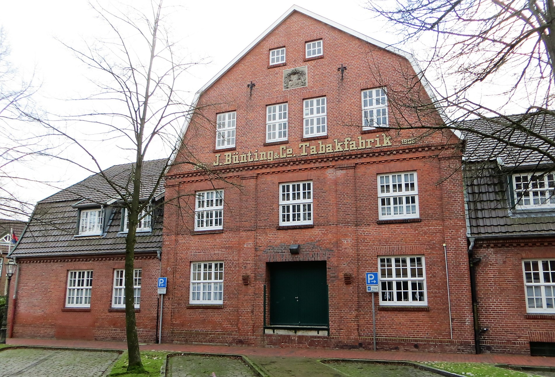 Building of the Bünting Tobacco Factory in Leer (Lower Saxony, Germany)